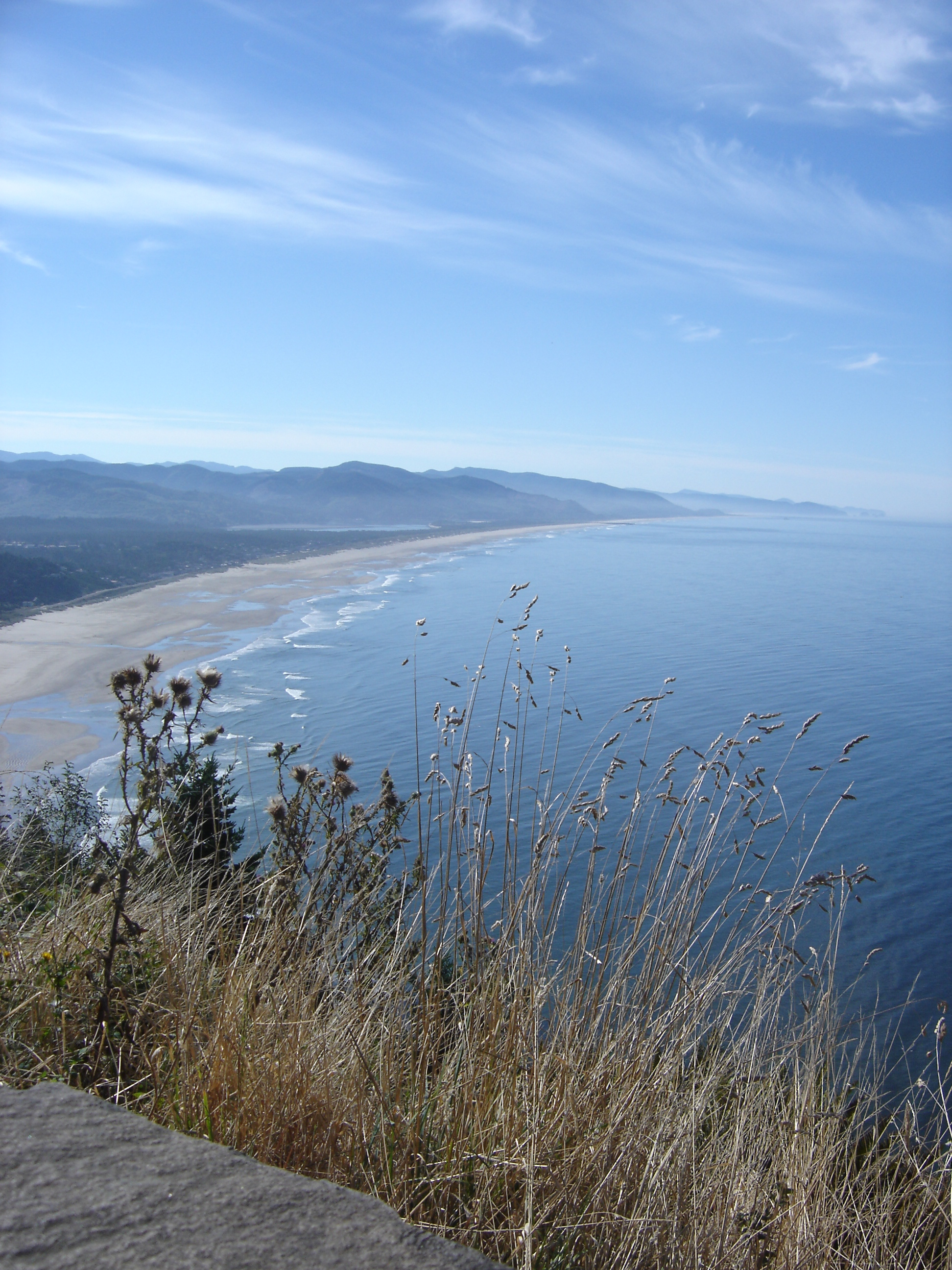 Picture of the Oregon Coast showing the city of Manzanita. Taken from a viewpoint along Highway 101 in Oswald West State Park.